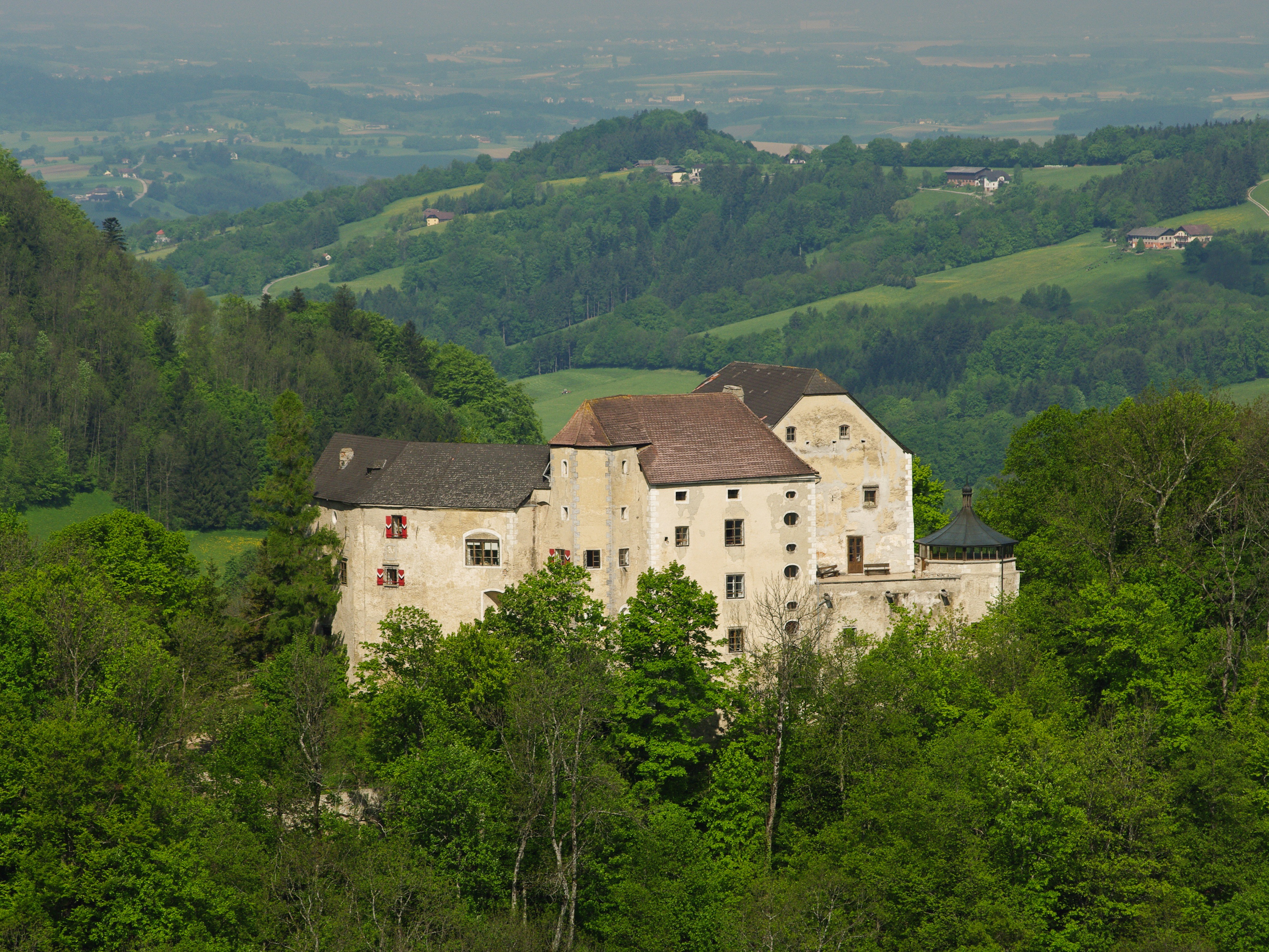 Burg Plankenstein in Lower Austria